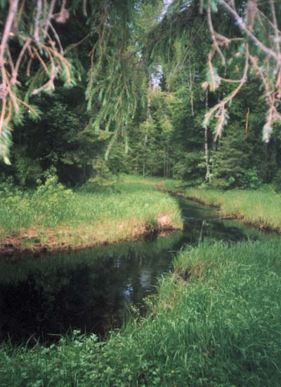 Forest in Vologda oblast near river Pursonga, by Shargina A.E.